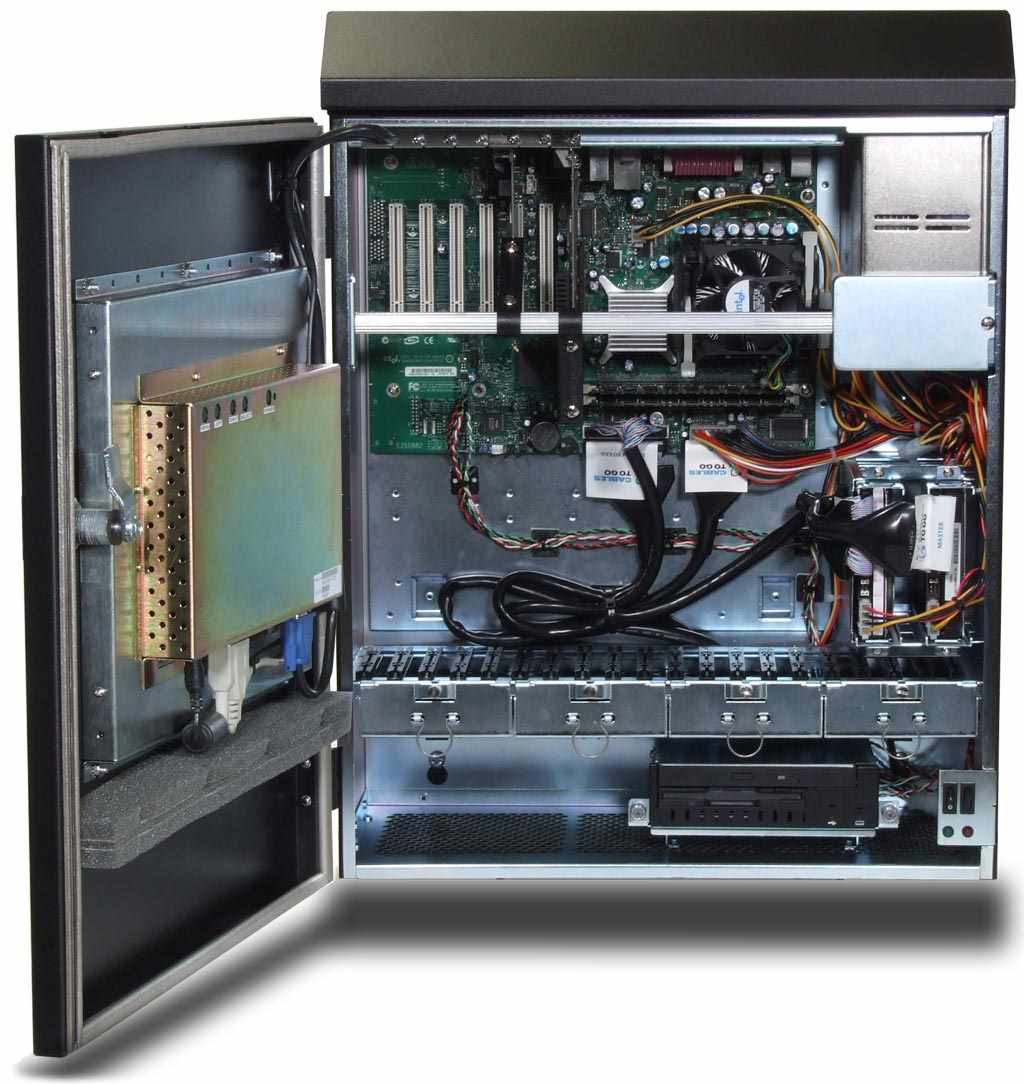 Chassis Plans wall-mounted industrial PC based on ATX motherboard Author David Lippincott for Chassis Plans URL